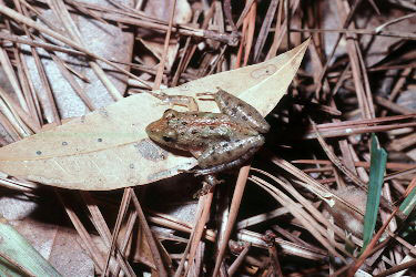 Southern Cricket Frog Acris gryllus